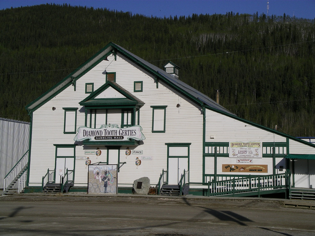 Entertainment that will take you to a time in the past